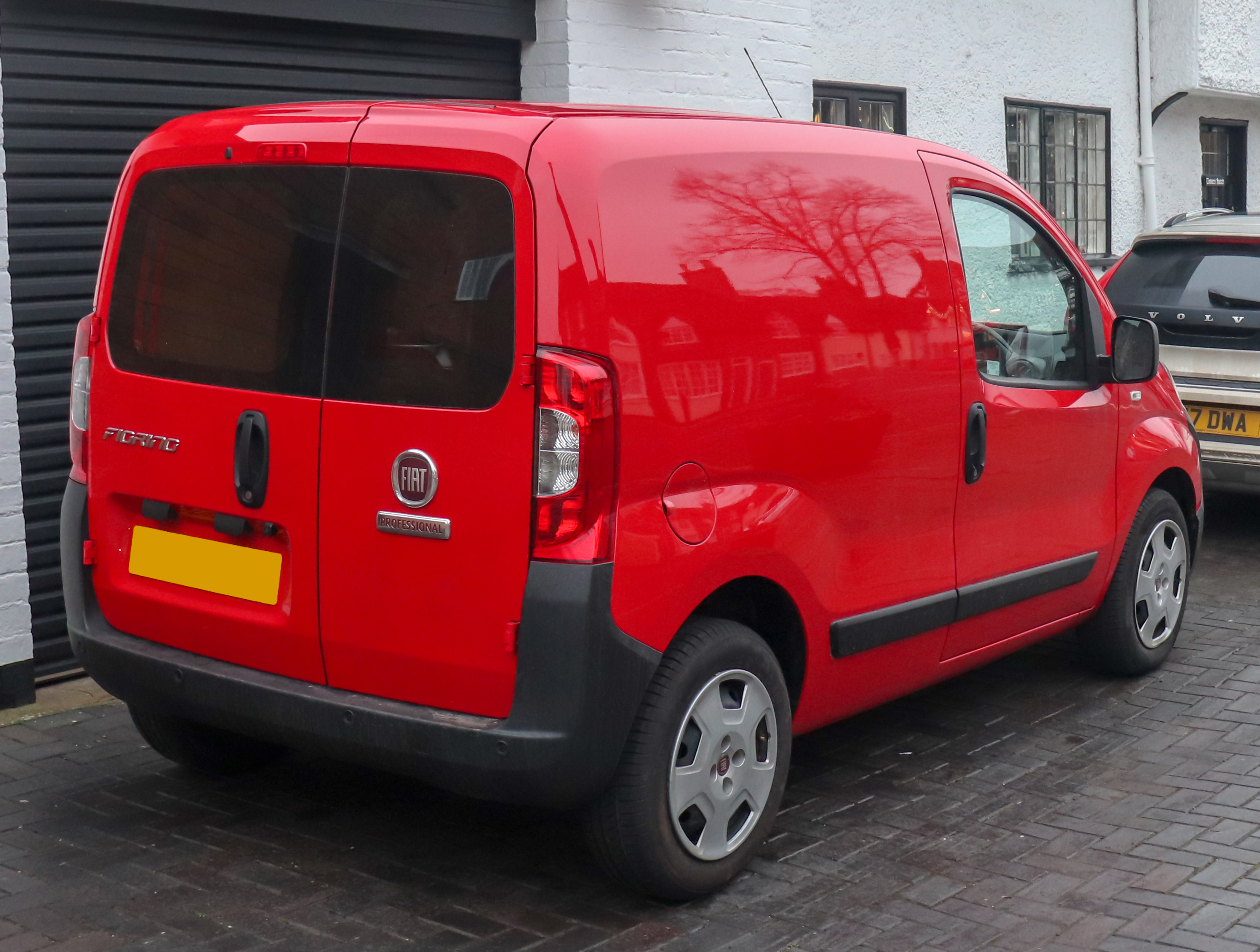 2018 Fiat Fiorino 16V SX Multijet 1.2 Rear Taken in Warwick